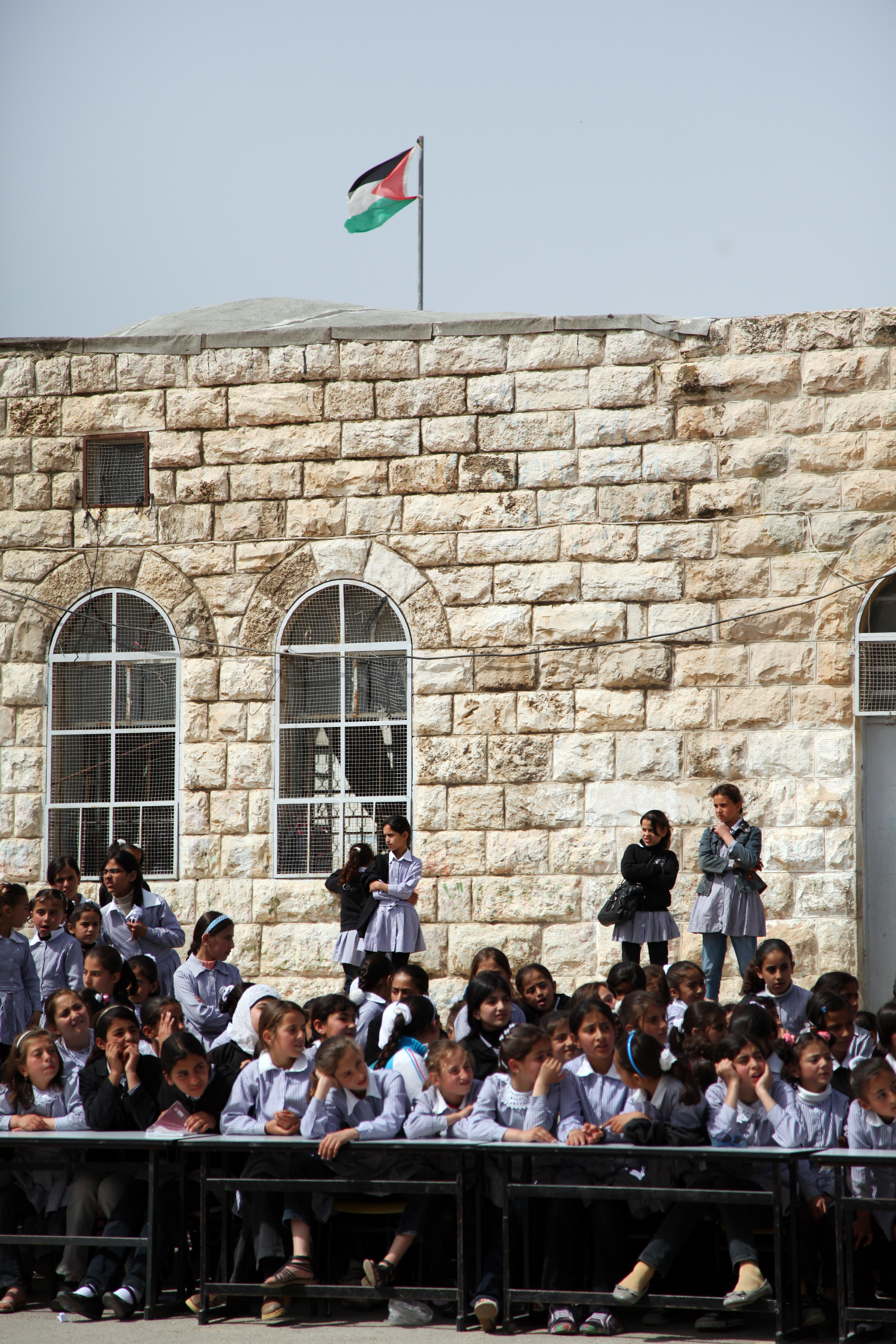 Hebron, Al Shioukh elementary girl’s school-A photo for the fourth and fifth grade students watching the celebration of the WASH facilities that UNICEF built it at the school funded by AUSAID. 4 April 2011.